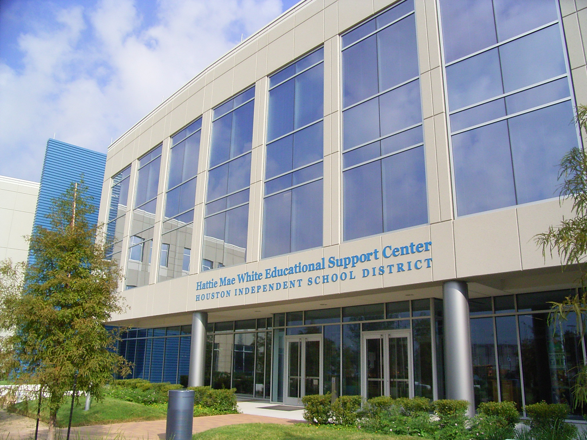 The Hattie Mae White Educational Support Center (2006), which houses the Houston Independent School District administrative offices, in Houston, Texas.